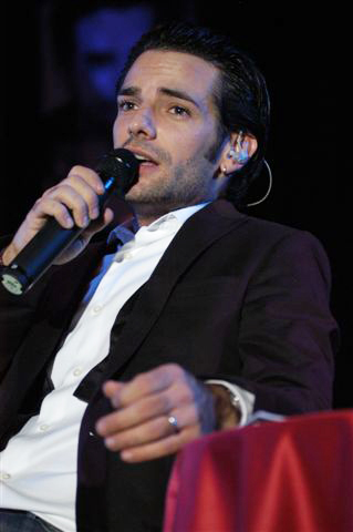 Manuel Ortega Live im Orpheum Wien 2006